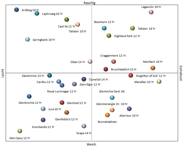 The original Single Malt Whisky Flavor Map was designed by the Friends of the Classic Malts, Glasgow, and published in free copies 2007. Dave Broom was the Editor. Diageo funded the project which means that you find some more Diageo Whiskies in the map's selection